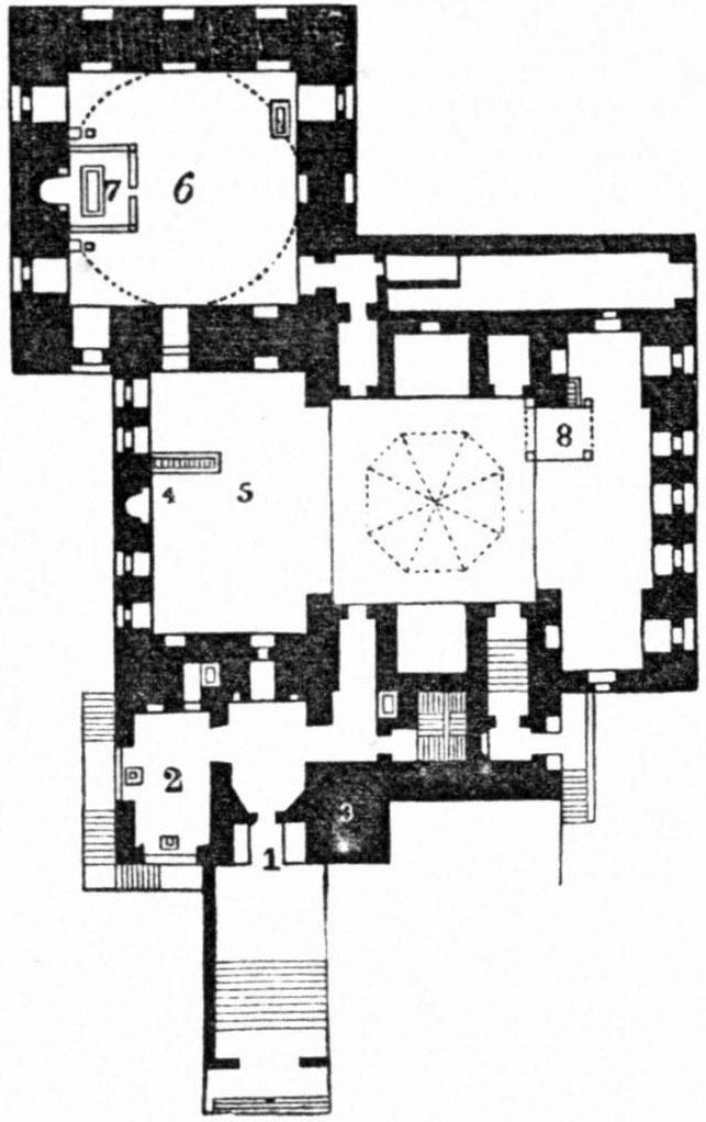 Floor plan of Mosque-tomb of Kait-Bey, Cairo